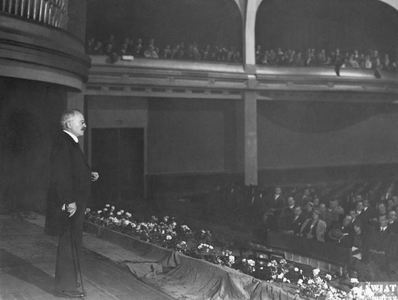 Estonian neuroscientist Ludvig Puusepp giving a lecture on the topic of (roughly translated) "sexual issues and anxiety for men and women from the perspective of modern medicine," in Colosseum theatre hall in Warsaw, Poland.